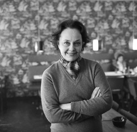 Photograph of the Finnish vocalist/actor Birgit Kronström (1905–1979).